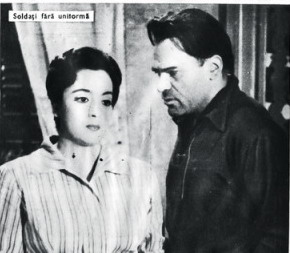 Romanian actors Lica Gheorghiu and Liviu Ciulei in „Soldați fără uniformă” (1960)